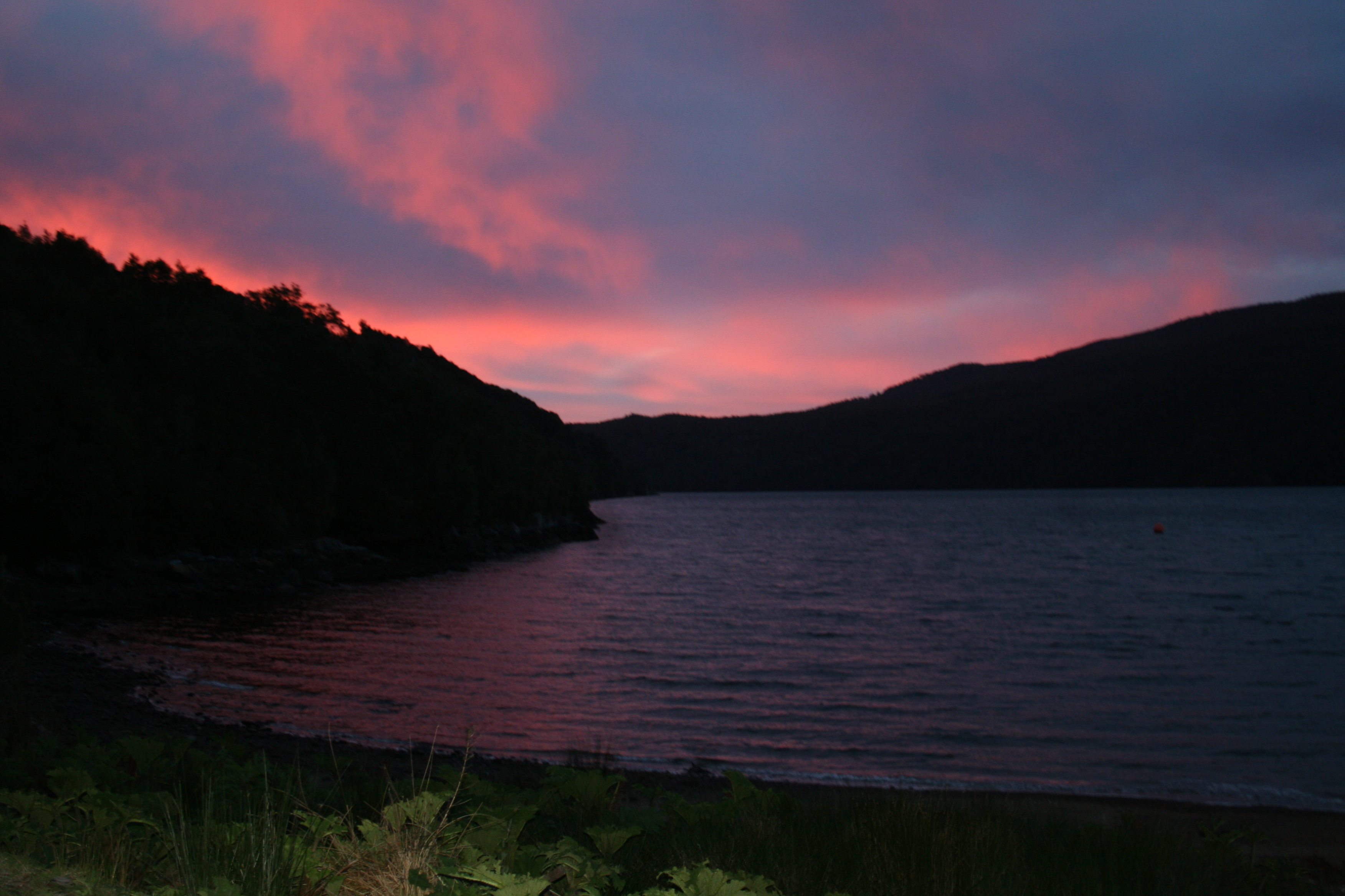 Pink skies on Isla San Pedro.